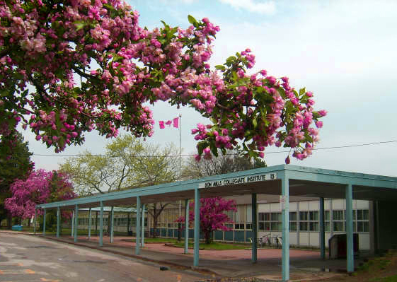 Depicted place: Don Mills Collegiate Institute